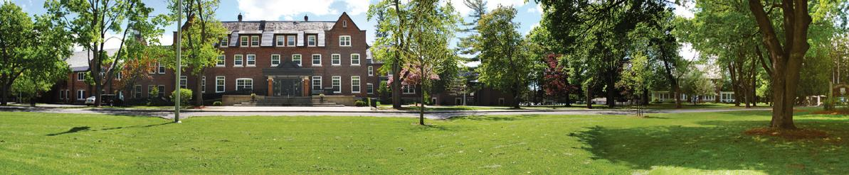 Front image of Ashbury College